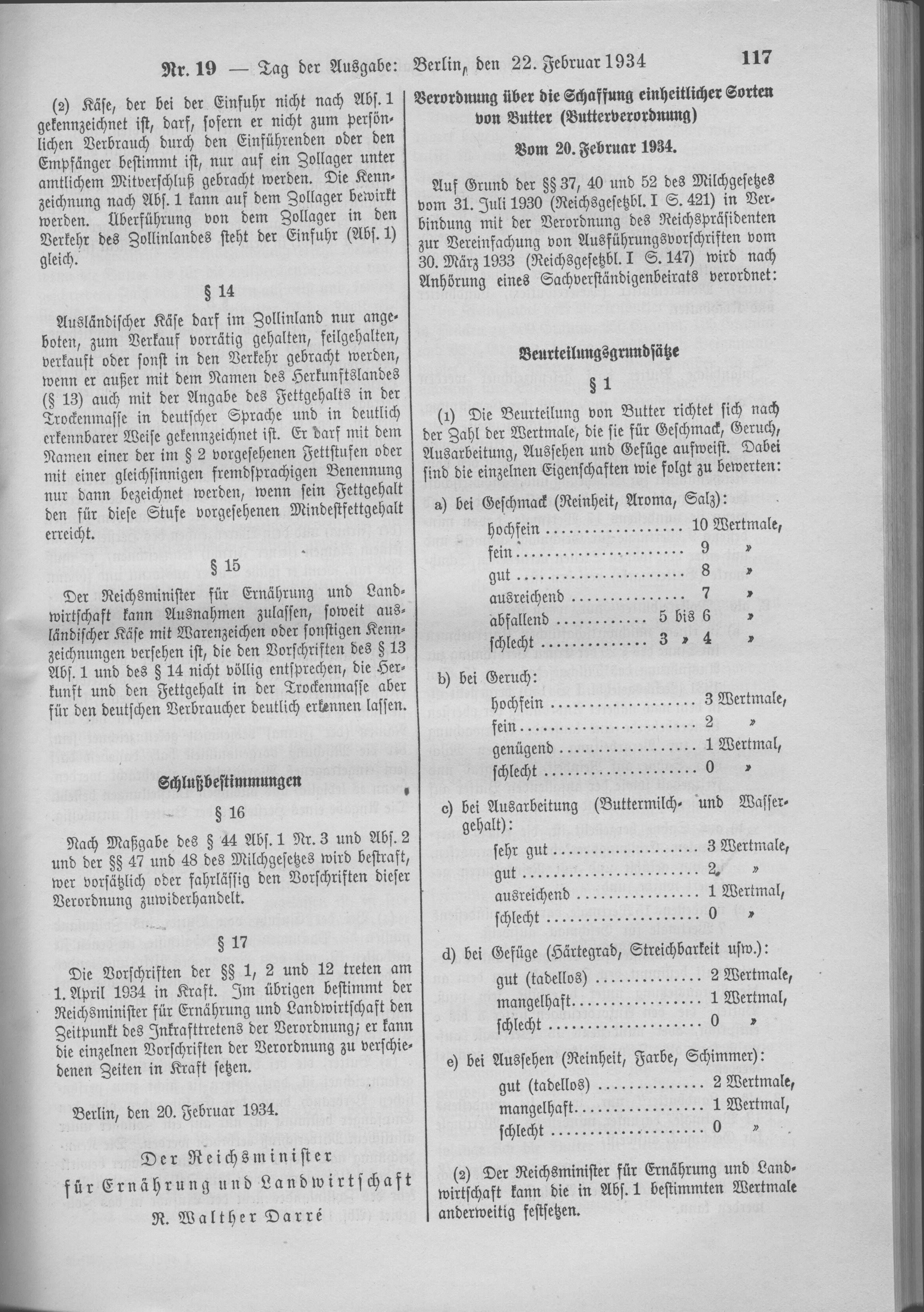 Scan from the Imperial Law Gazette of Germany, 1934, part 1